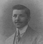 Şükrü Saracoğlu at a young age.